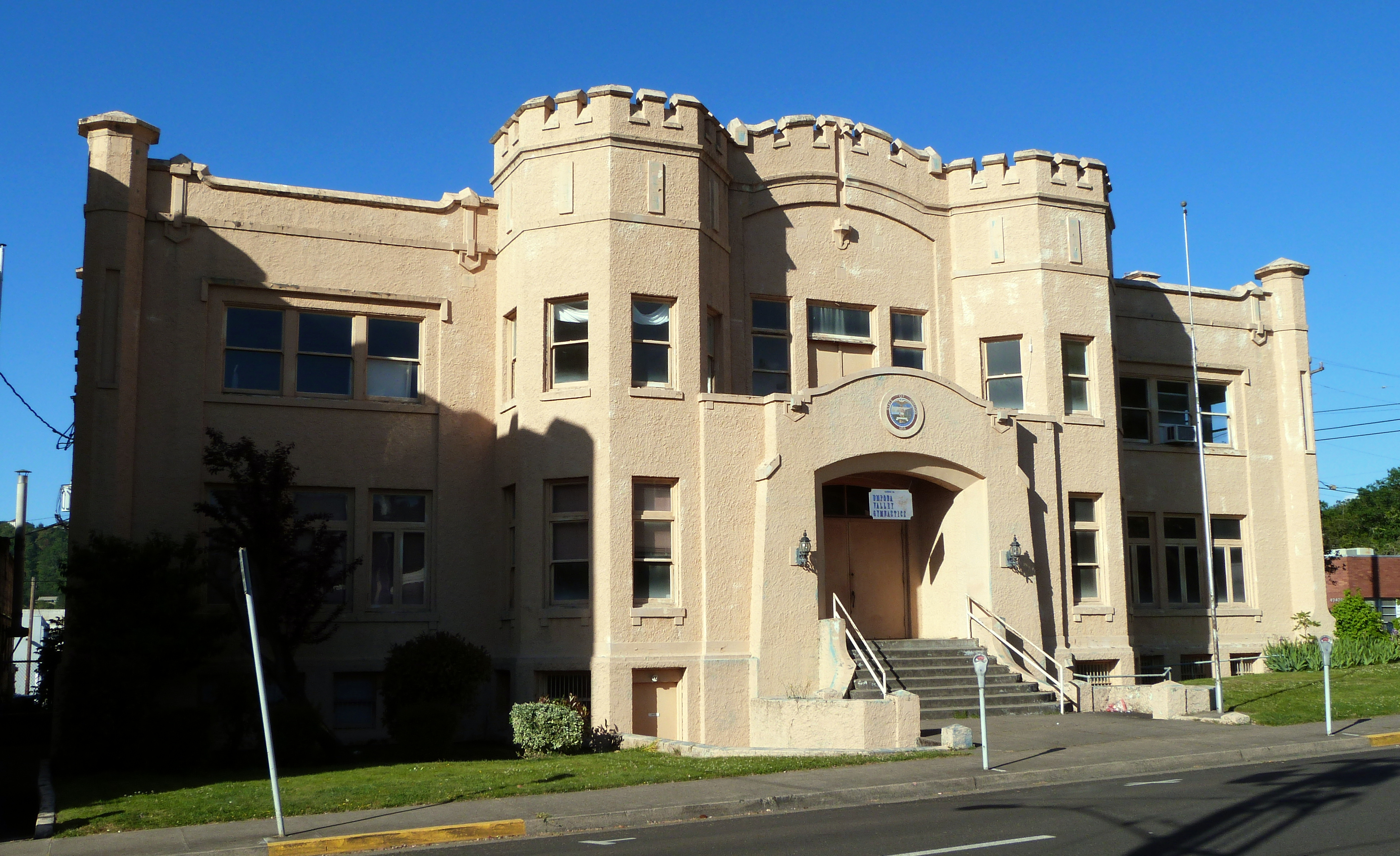 The historic Roseburg Oregon National Guard Armory (built 1913), located at 1034 Southeast Oak Street in Roseburg, Oregon, United States, is listed on the US National Register of Historic Places. It is additionally listed as a contributing resource within the Roseburg Downtown Historic District.